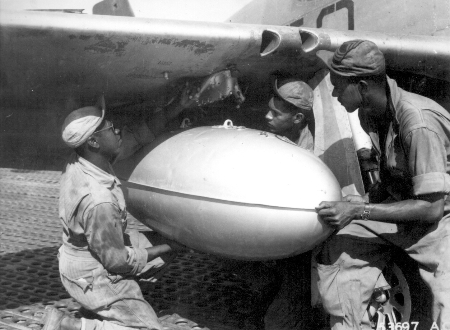 Mechanics of 99th FS "Tuskeegee Airmen" (332nd Fighter Group-15th USAAF) in Italy installing "babies" (auxiliary fuel supply) on P-51 "Mustang". Left to right: T/Sgt. Charles K. Haynes, S/Sgt. James A. Sheppard, and M/Sgt. Frank Bradley.